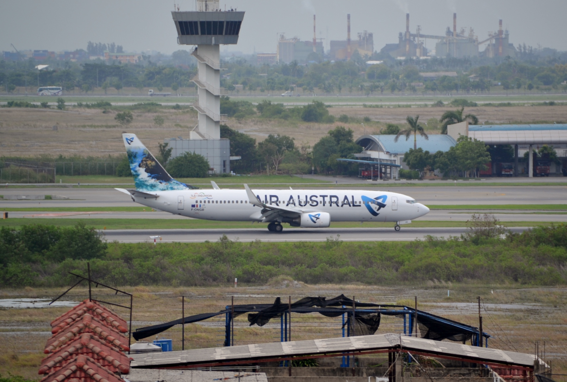 Boeing 737/8 of Air Austral arriving rwy.19R at Bangkok- BKK, Thailand, 24/06/15.